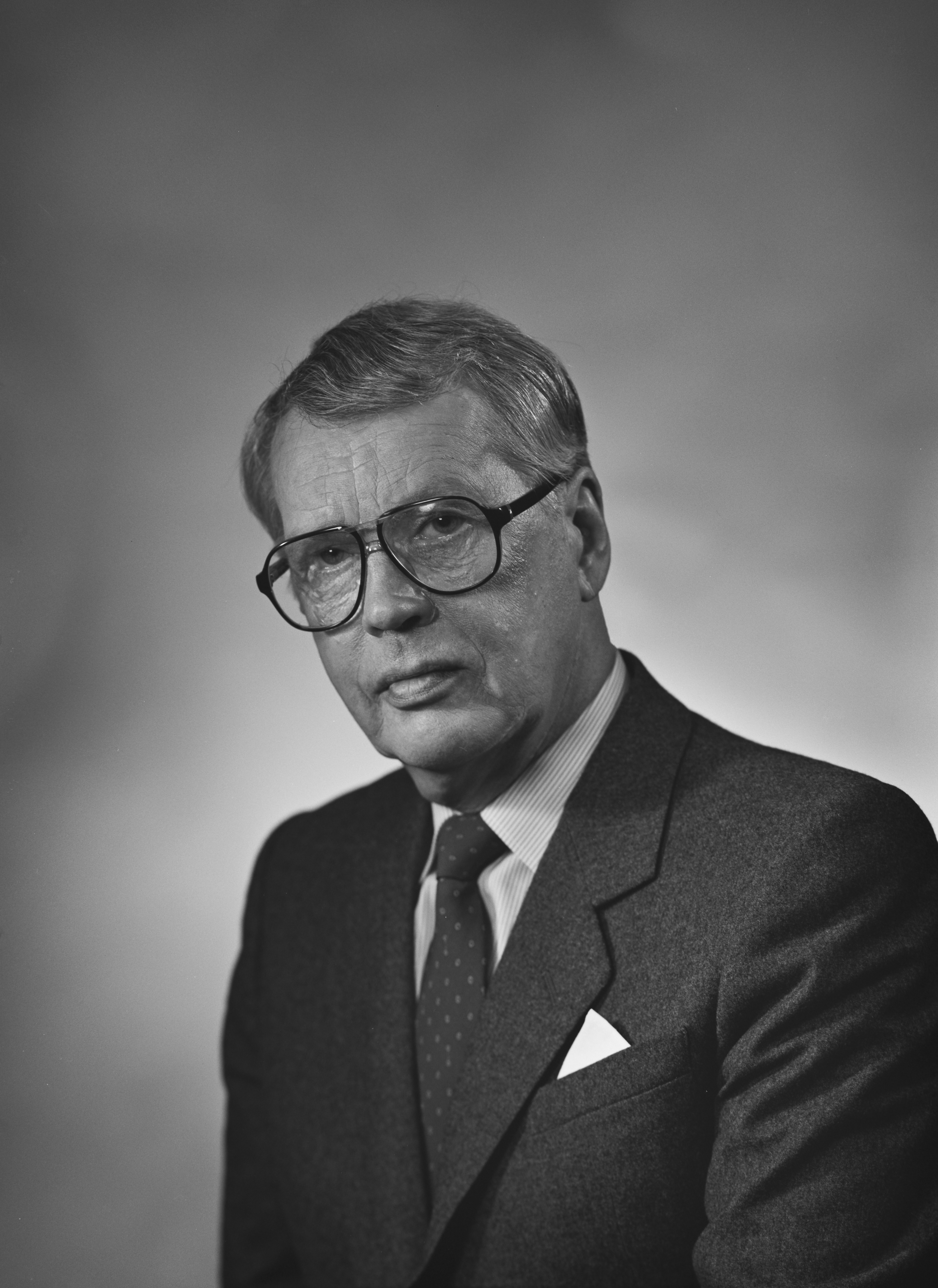 Photograph of the Finnish physician Lauri Saxén (1927–2005).